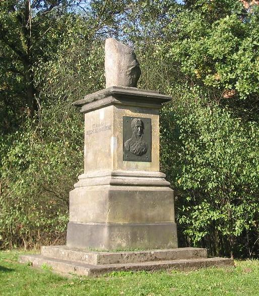 Hagelberg, pedestal of the former Borussia monument, built in 1848/49. The village Hagelberg is a part of the town Belzig in the district Potsdam Mittelmark, state Brandenburg, Germany. The village appertains to the nature park Naturpark Hoher Fläming. The eponymous Hagelberg (hill) is with a height of total 200 meters the highest elevation in the Fläming. There are two monuments commemorating to the prussian victory in the „Battle nearby Hagelberg“ in 1813 against Napoleon.